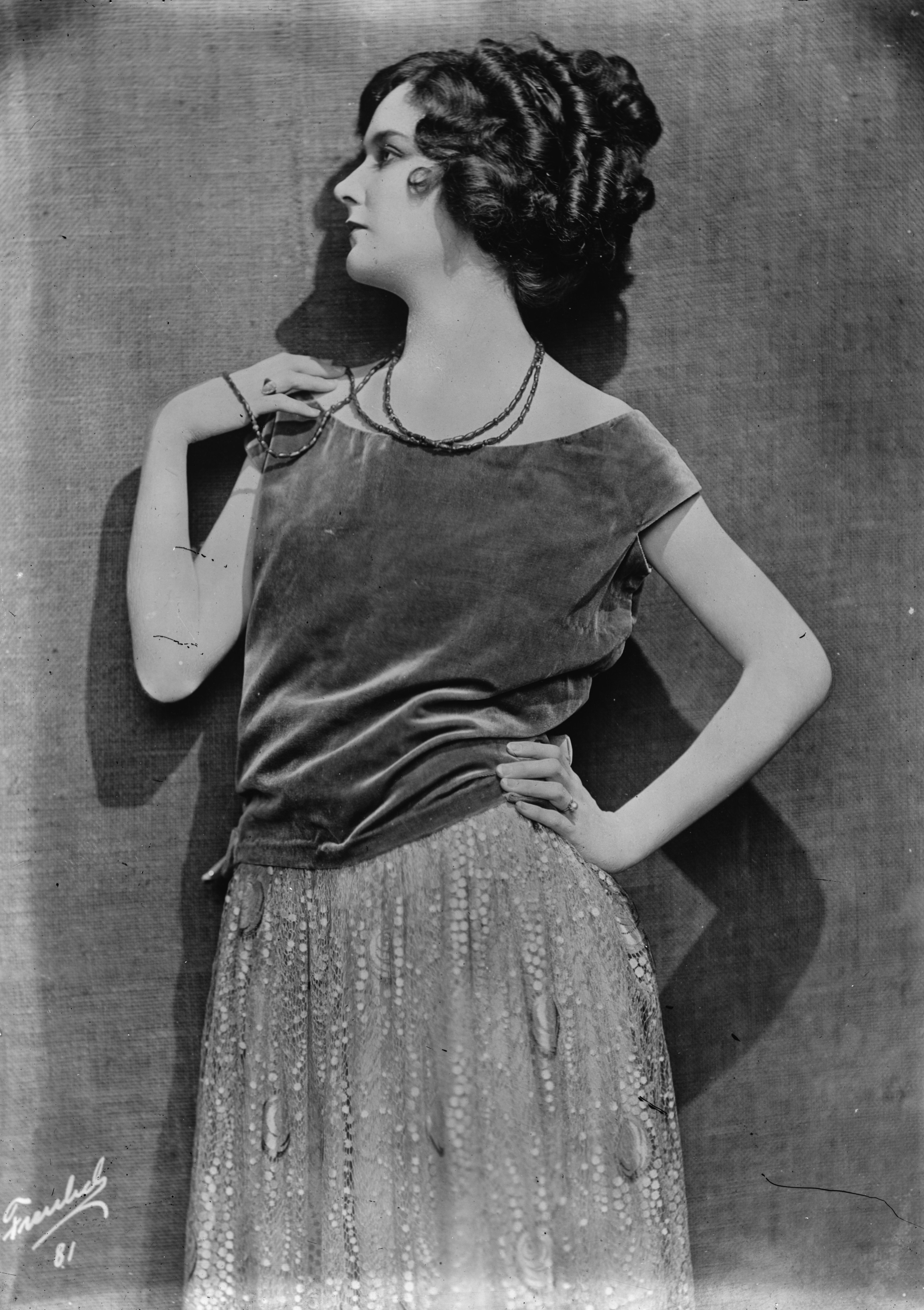 Actress Mary Philbin